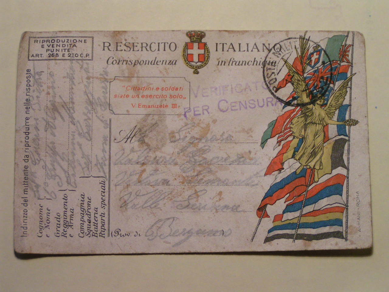 Postcard from the Italian front of World War I - circa 1917.